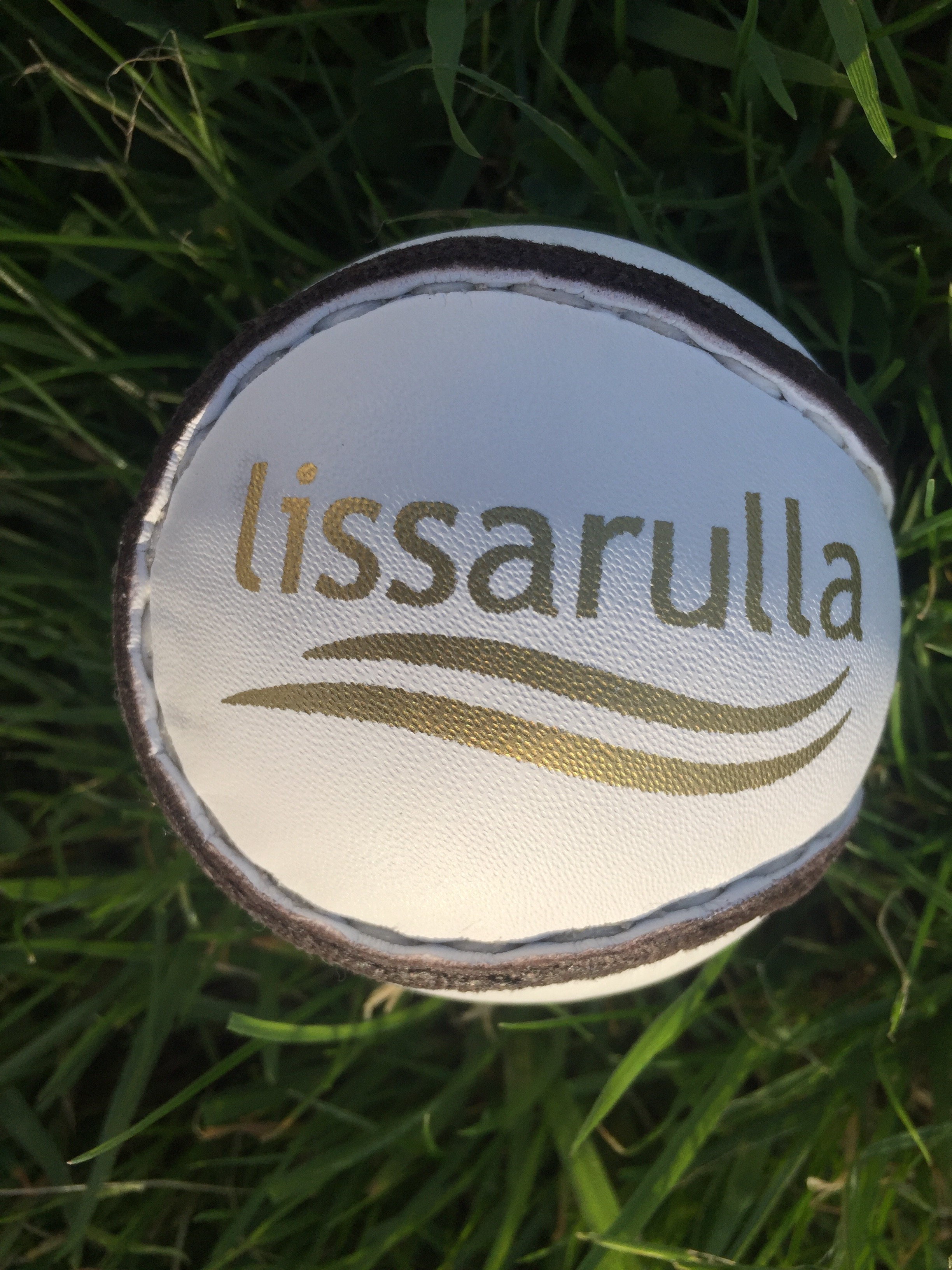 GAA Irish hurling sliotar